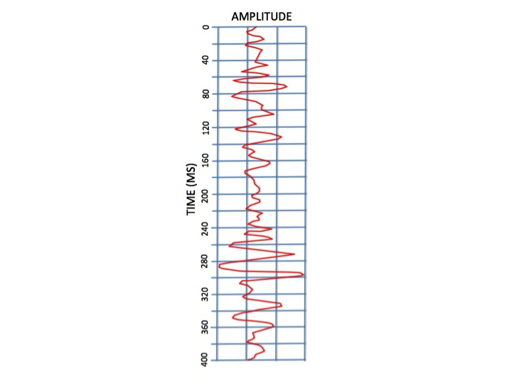 Amplitude Log